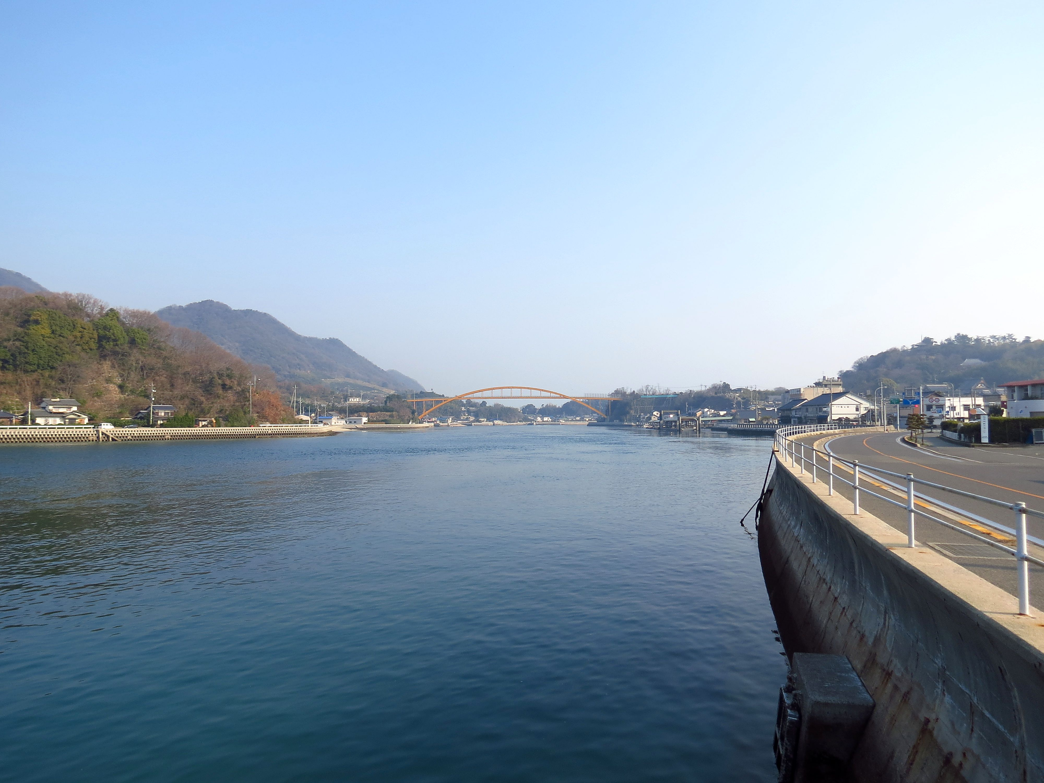 Setoda